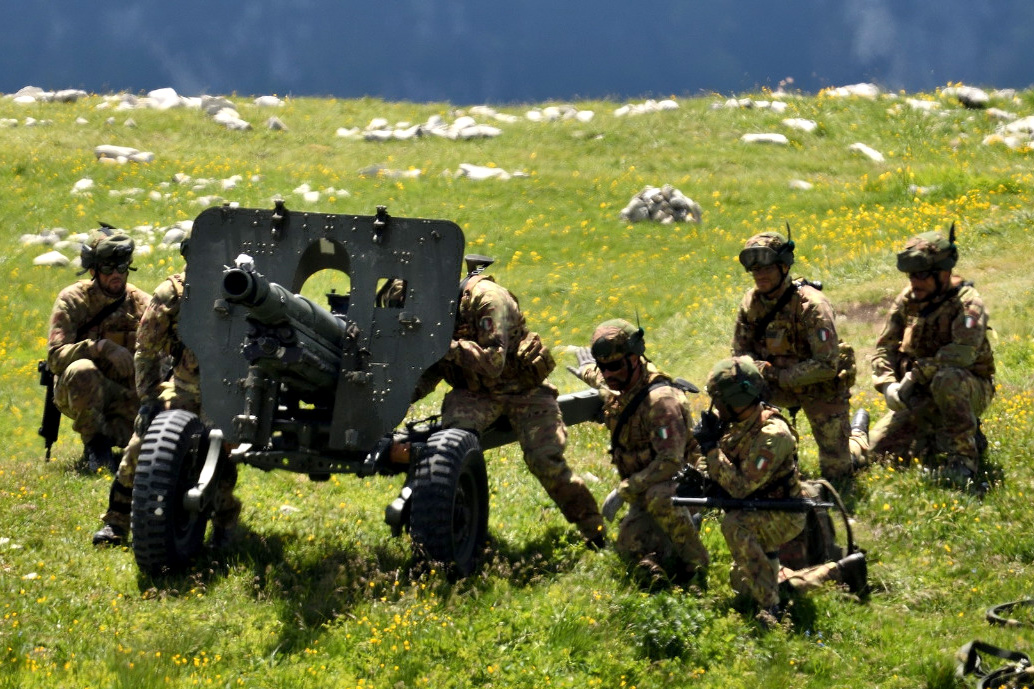 Italian Army mountain artillery troops with a Mod 56 pack howitzer during the exercise Lavaredo 2019 in the Dolomites